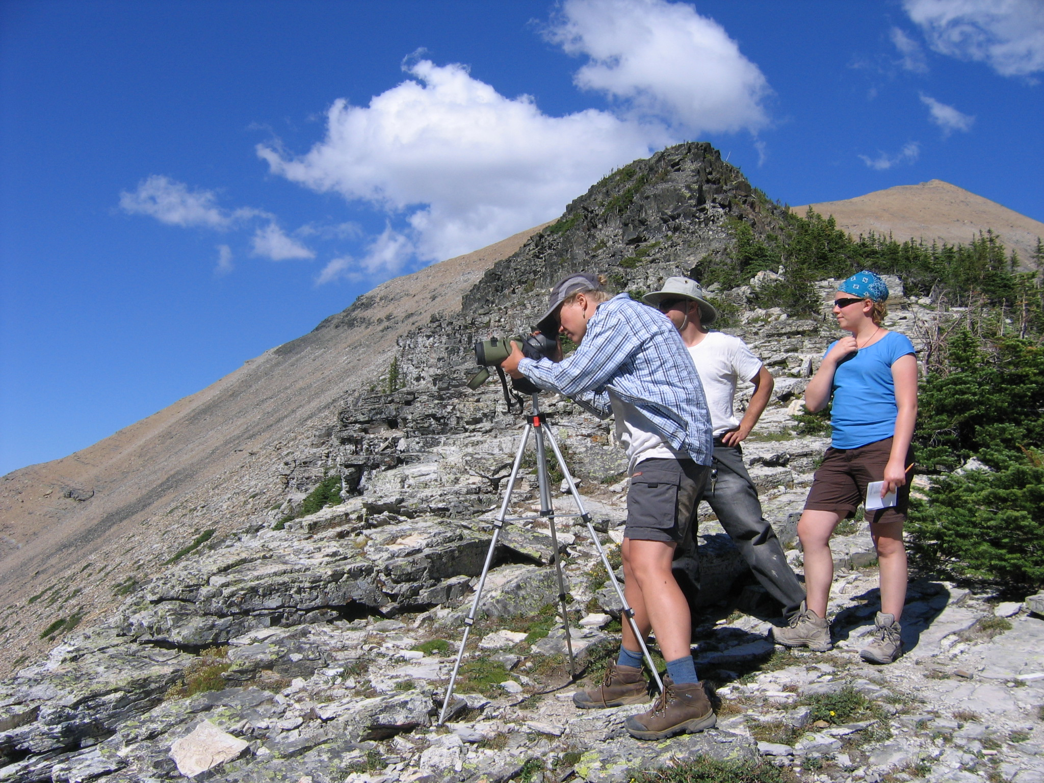 Scanning the cliffs for mountain goats for the high country citizen science project.